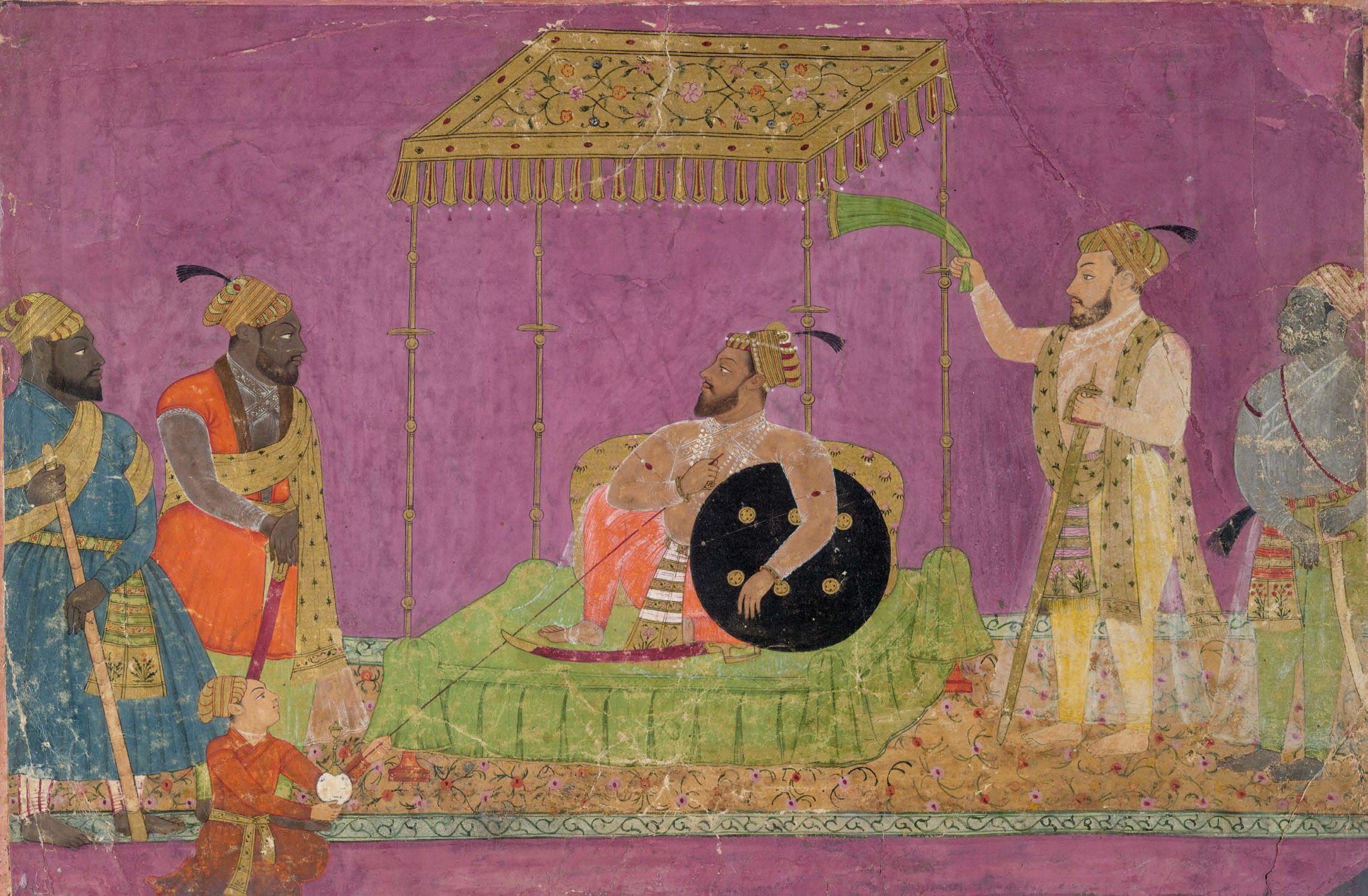 Sultan Muhammad Adil Shah of Bijapur and African courtiers, ca, 1640. Credit: The British Library Board